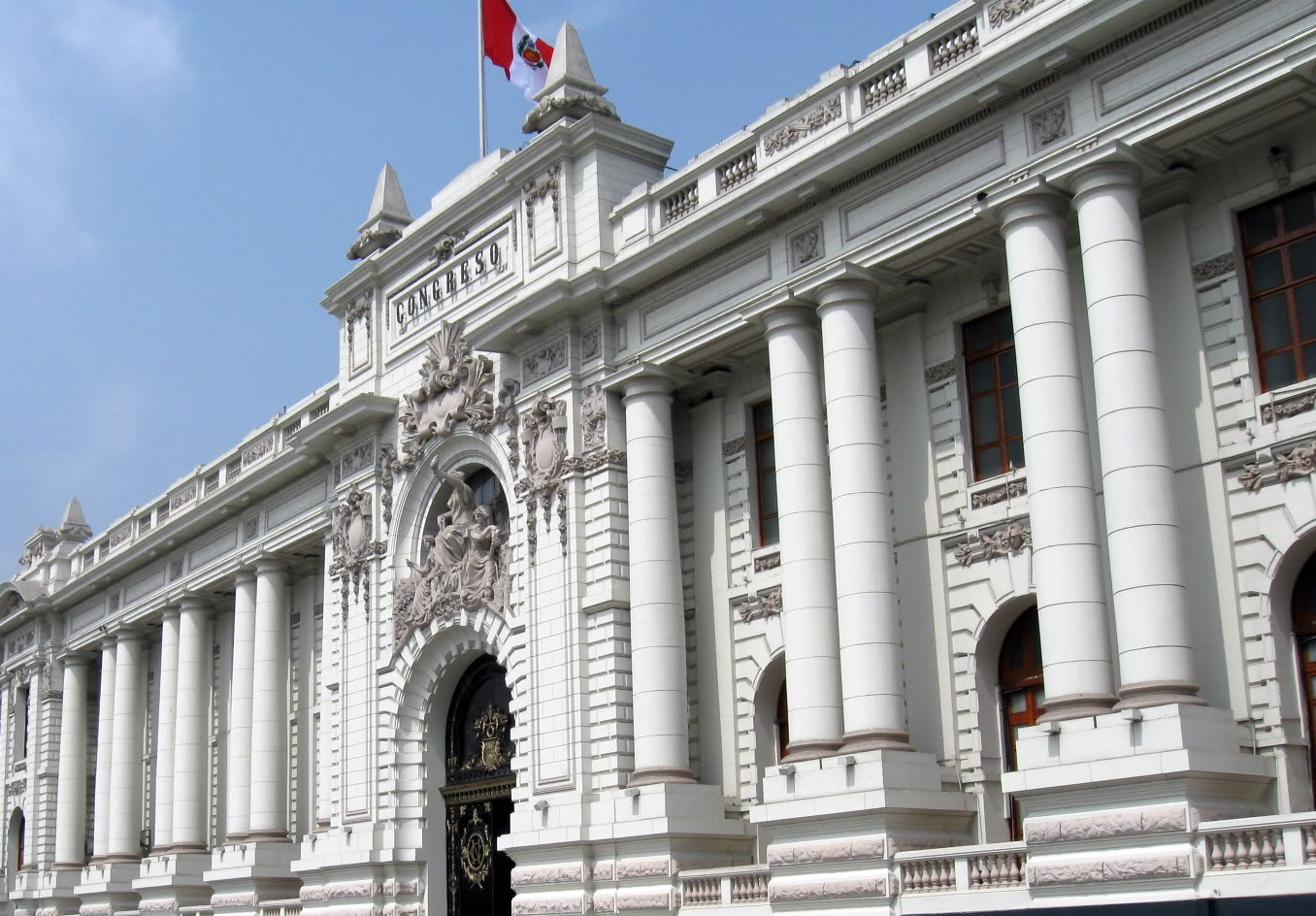 Congress building of Peru.